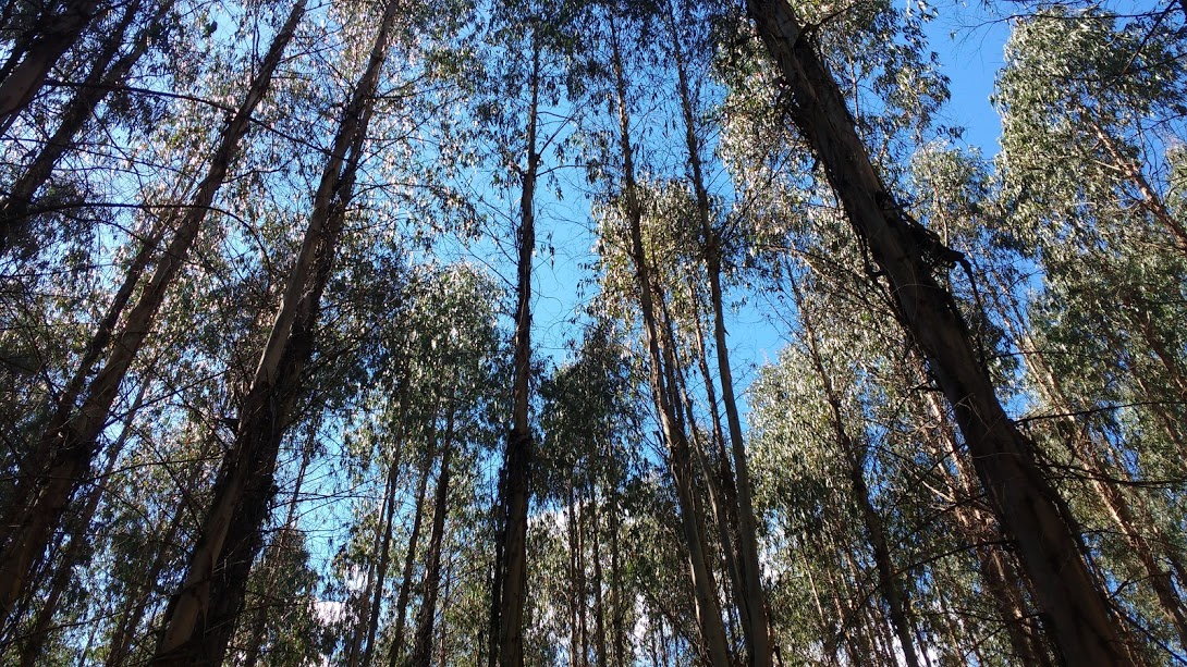 bosque_laureles